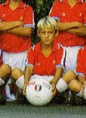 Francesco Totti at Lodigiani in 1986.